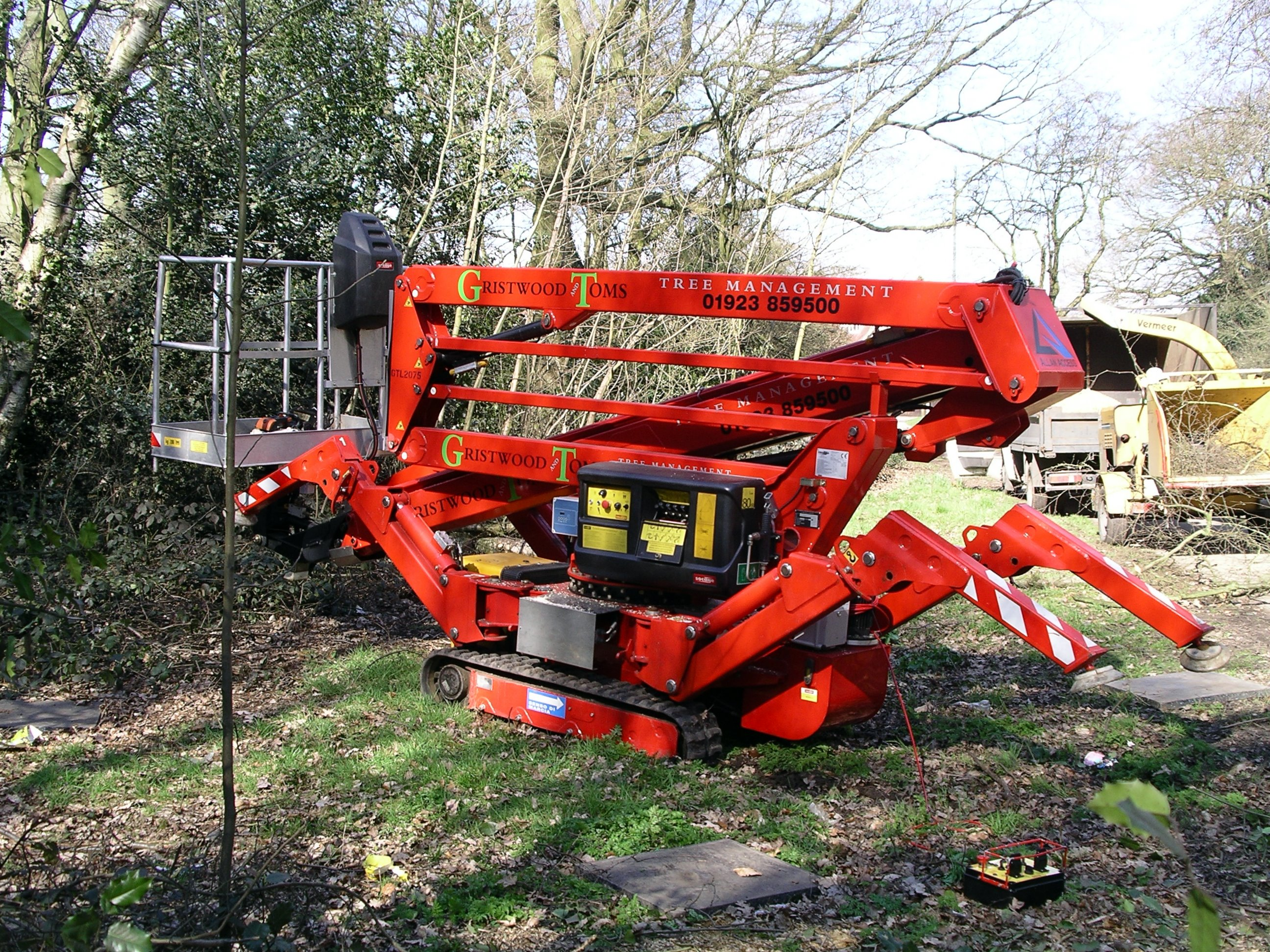 Photo taken by me of a machine used in tree management on 14 March 2007. It was being used to tidy up some trees at the road side in a City in the midlands of England.